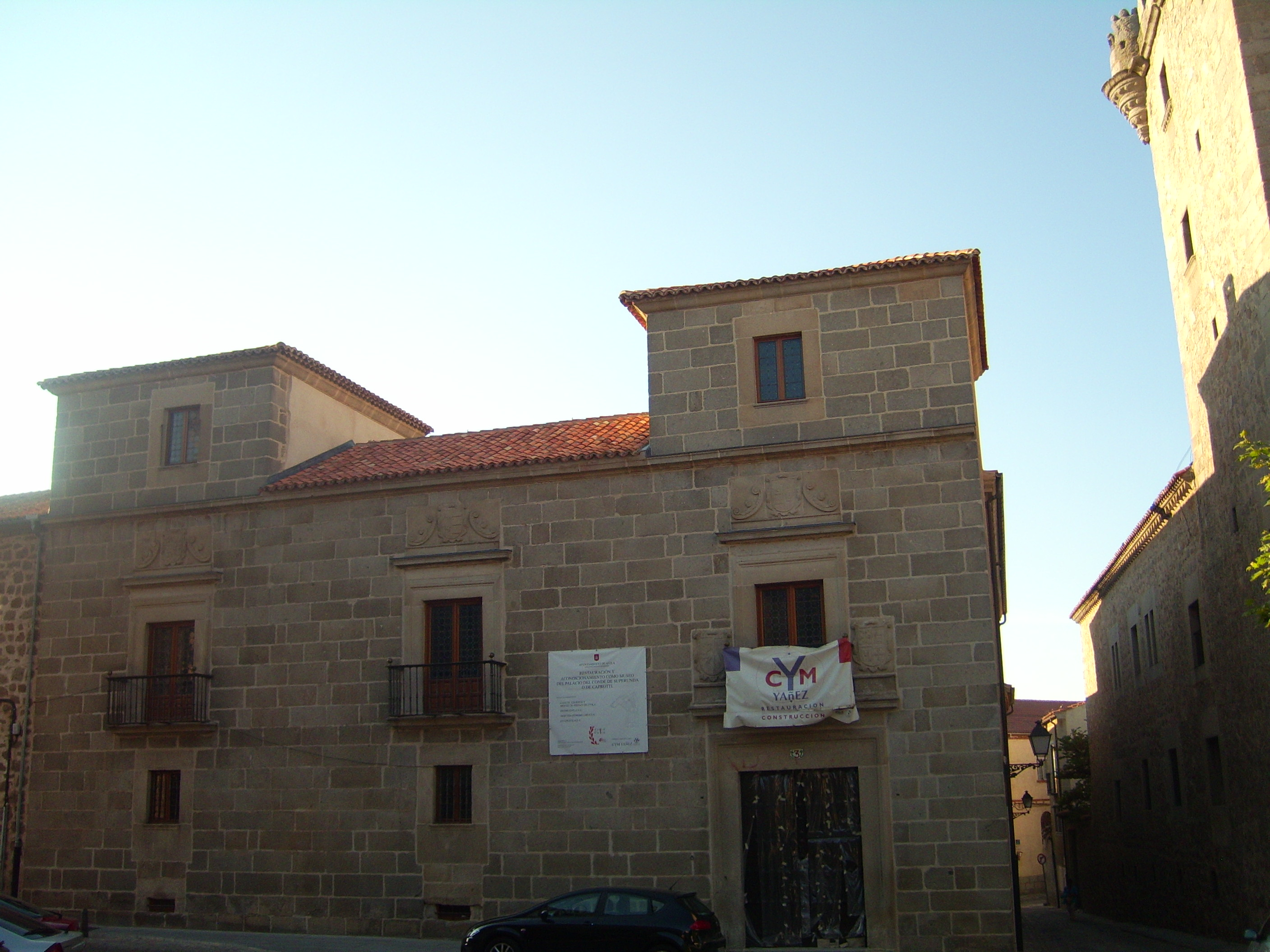 Superunda Palace